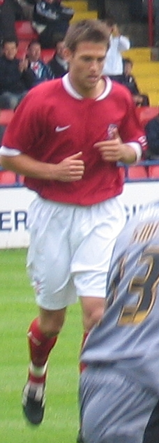 YCFC player.